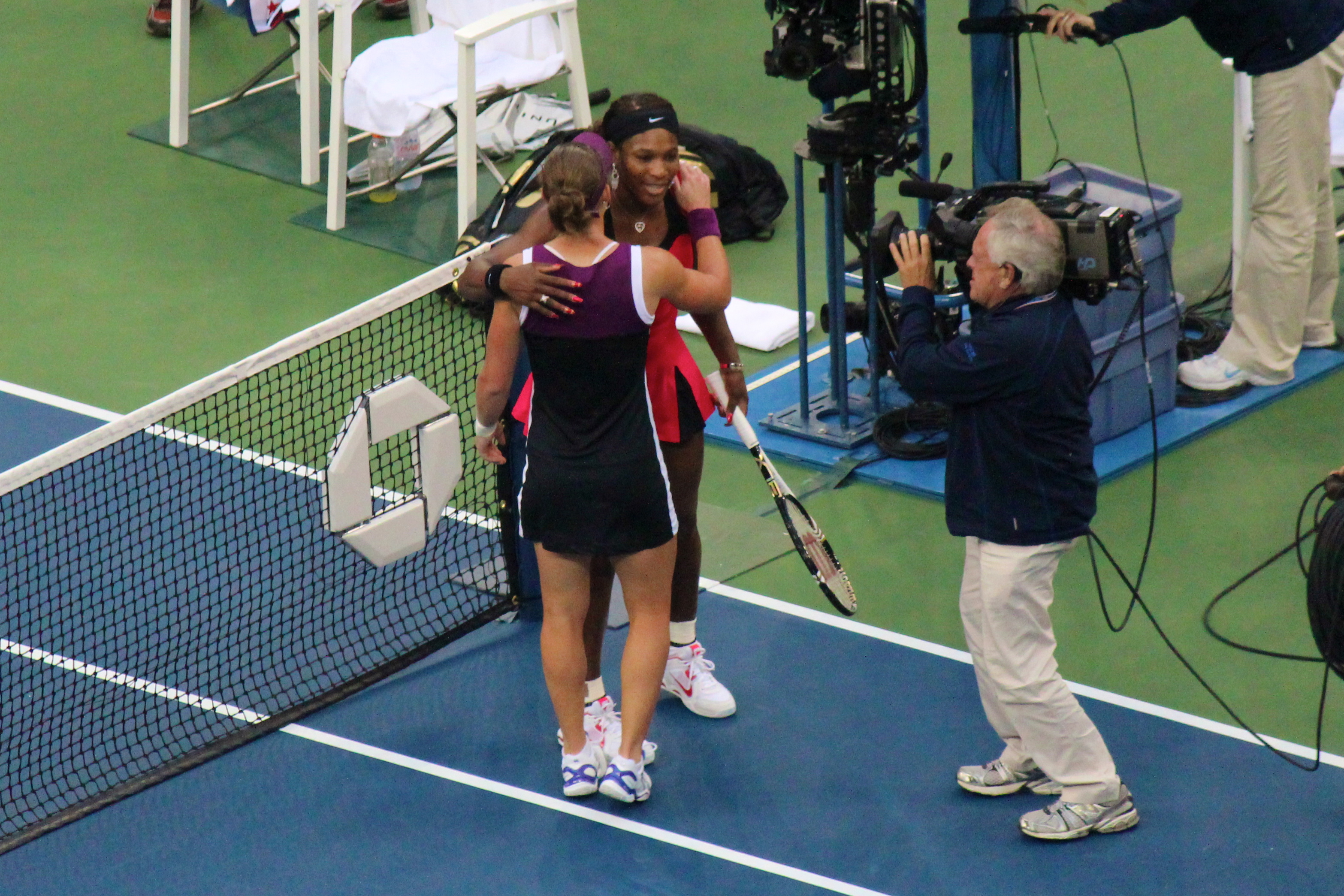 Serena congratulates Sam Stosur after she wins the US Open 2011 Women's finals